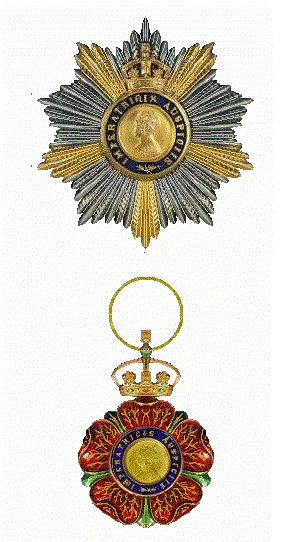 GCIE Knight Grand Commander of the Order of the Indian Empire